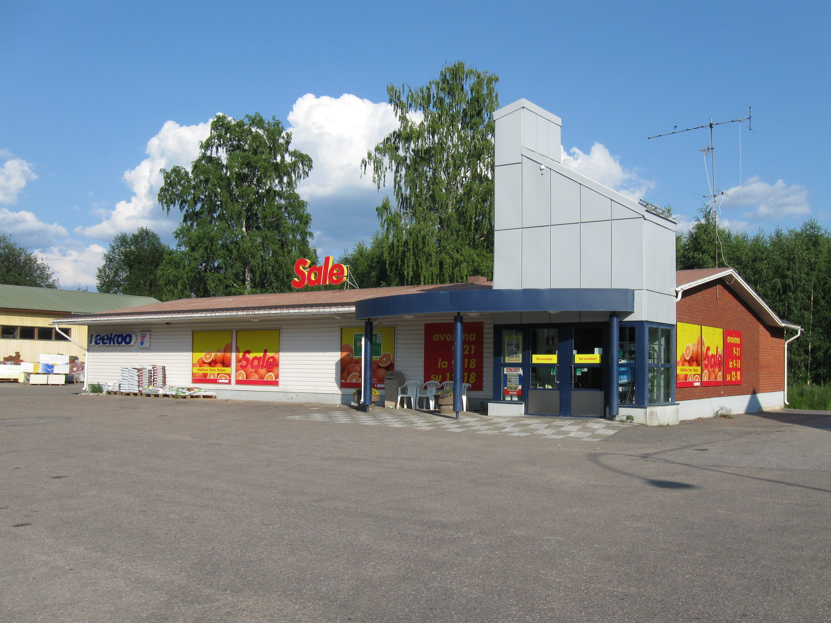 The Sale store of Niukkala in Uukuniemi, Parikkala, Finland.